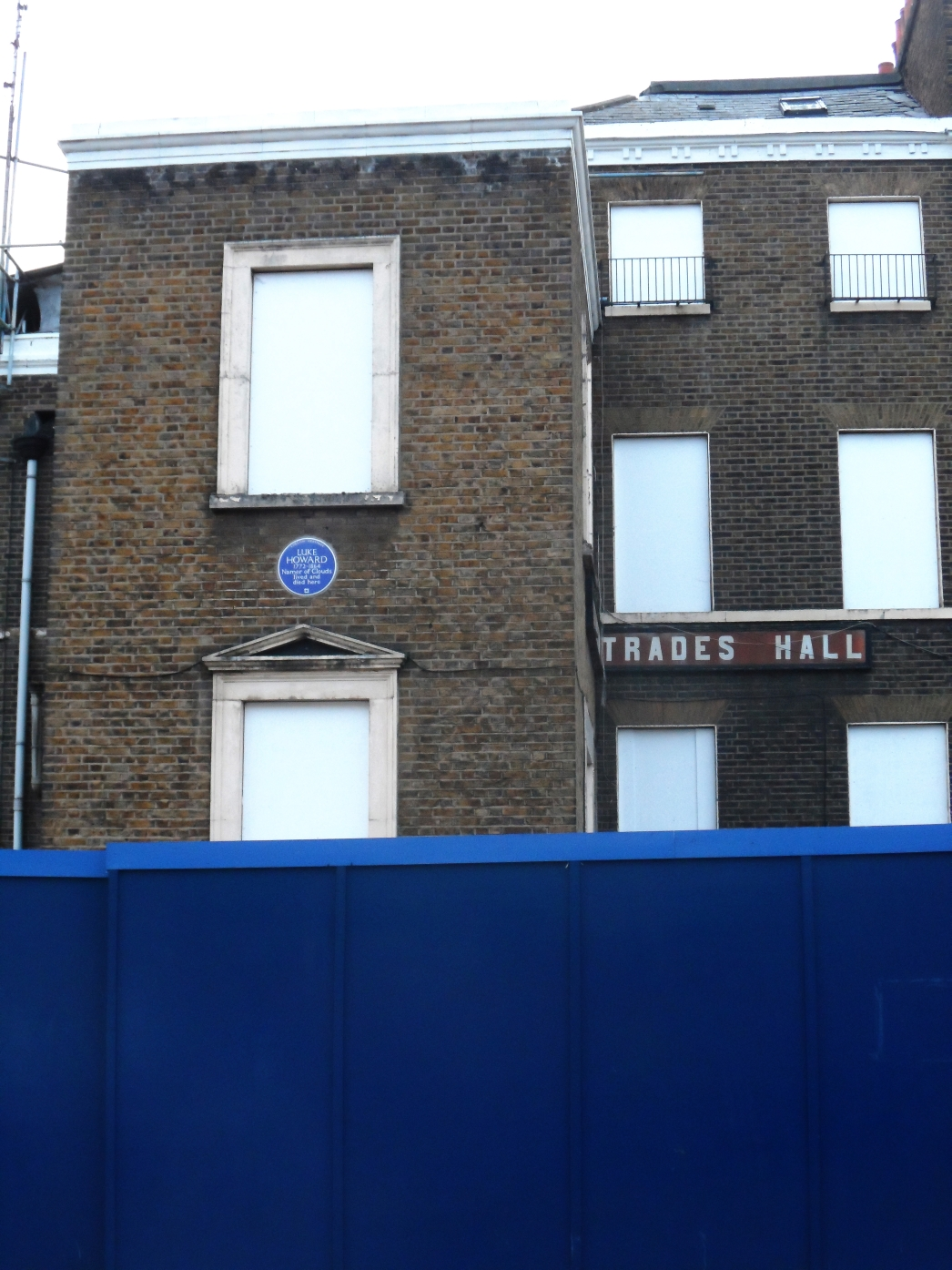 Former home of Luke Howard, father of meteorology